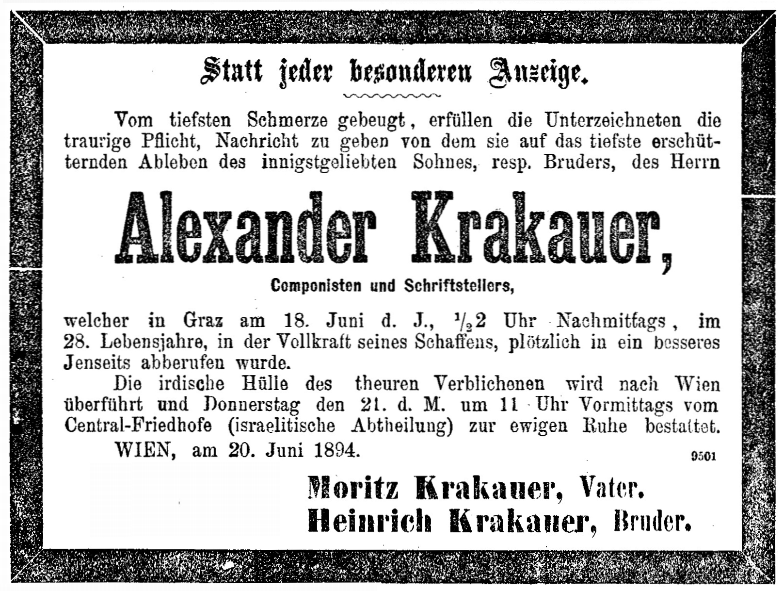 death notice of Alexander Krakauer (1866–1894), Austrian composer of Viennese songs.